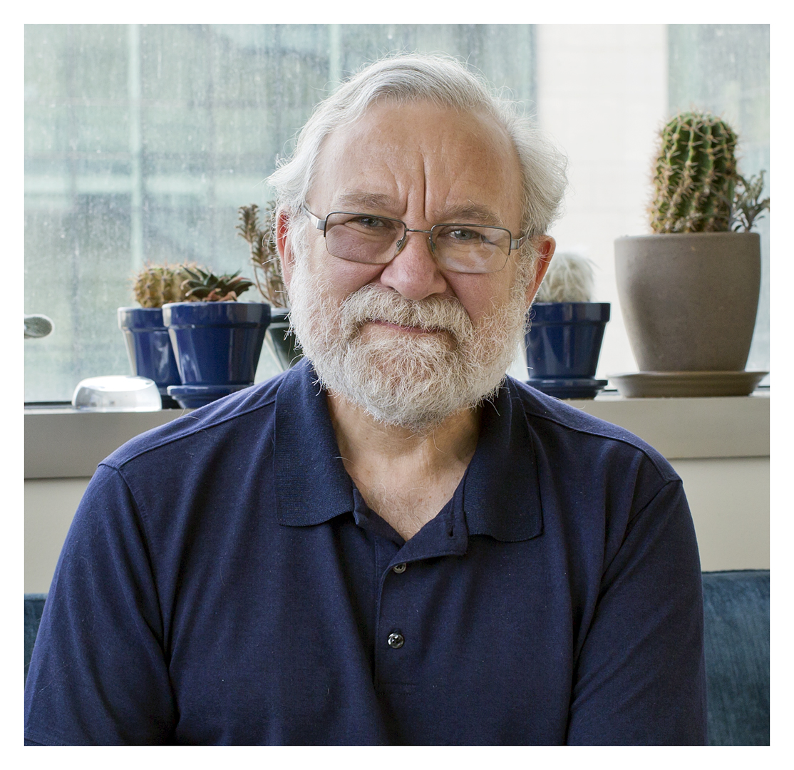 Peter Walter 2015